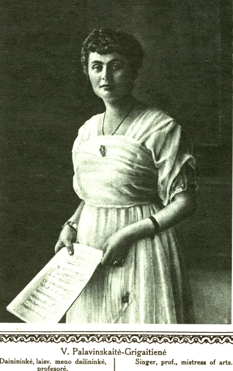 Vladislava Grigaitienė, Lithuanian vocalist (soprano)